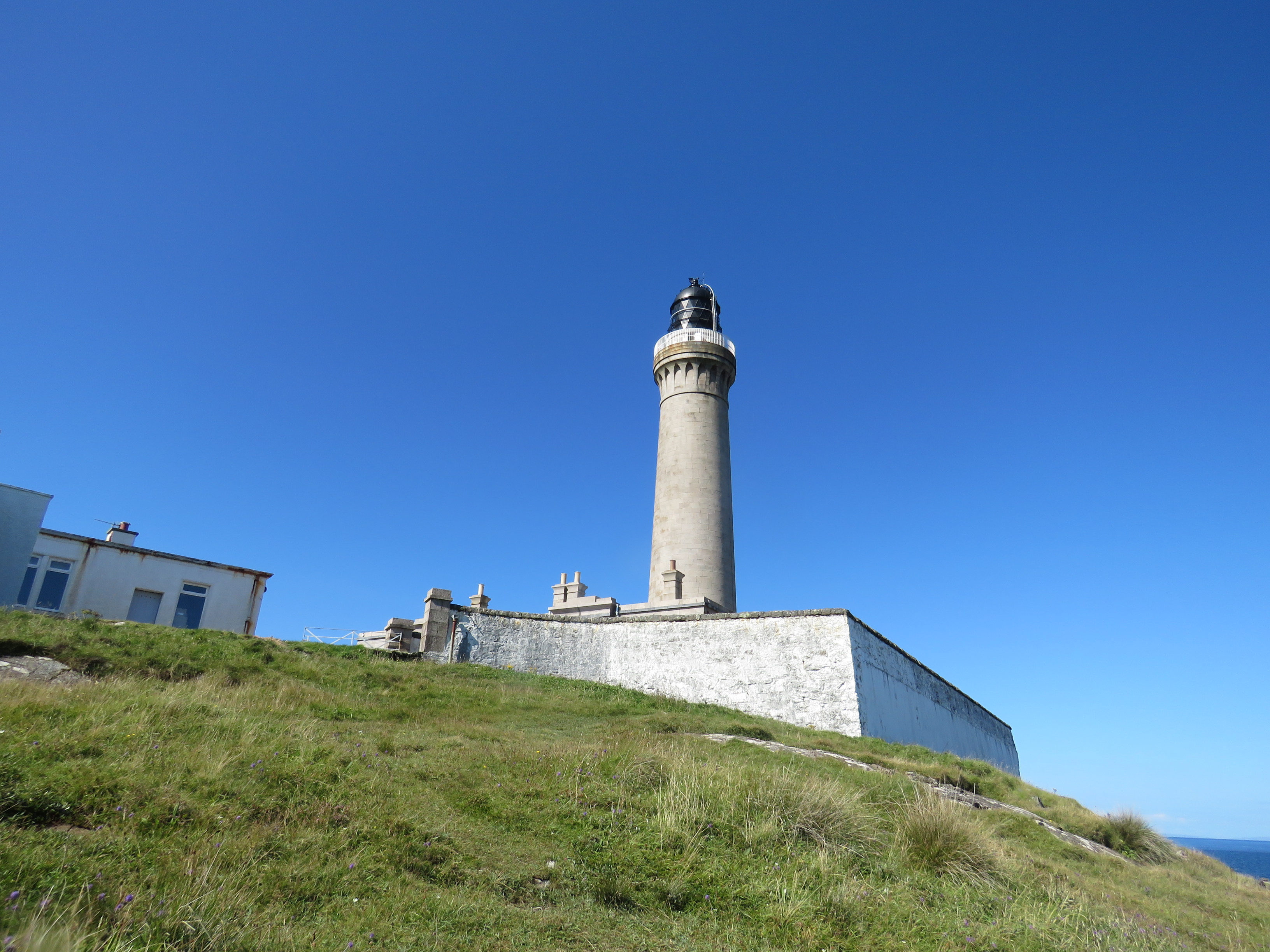 Ardnamurchan Lighthouse, Ardnamurchan peninsula, Scotland